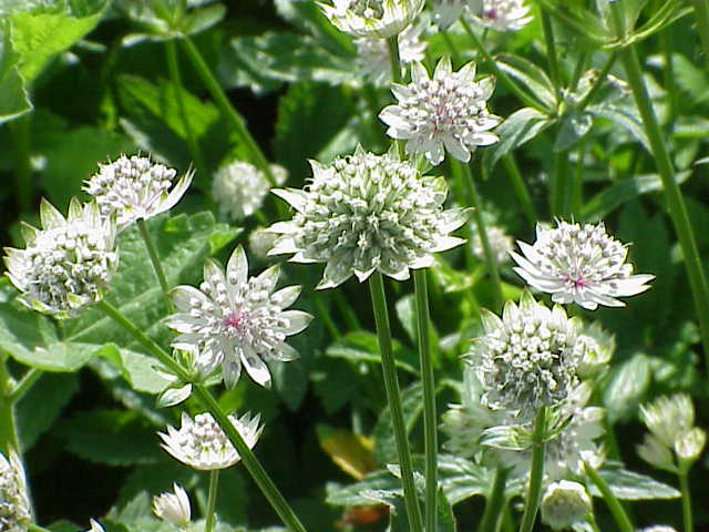 Species: Astrantia major Family: Umbelliferae Image No. 8